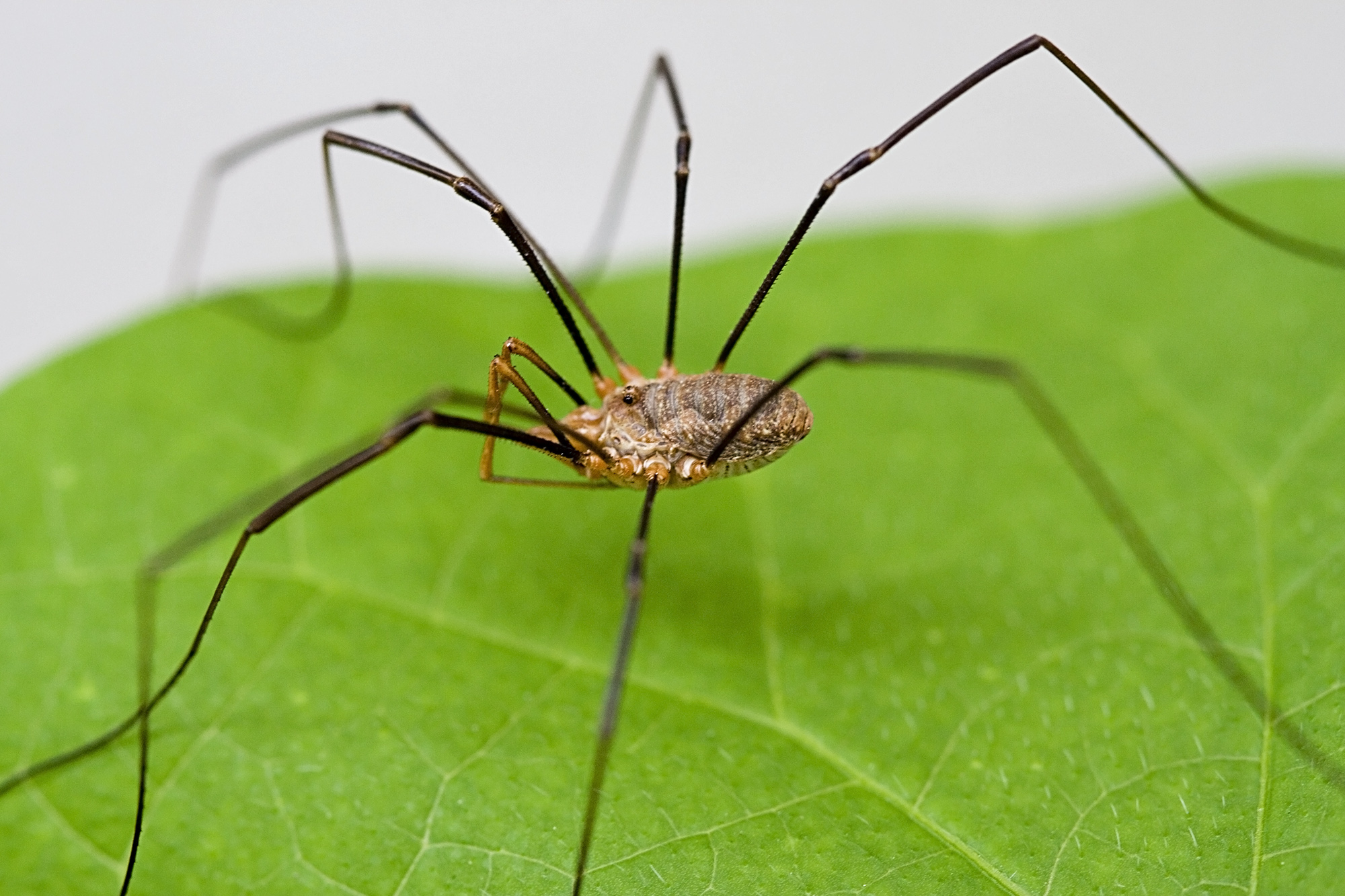 Macro shot of Opiliones Harvestmen. Probably male Phalangium opilio - @Author: Please add a location!!